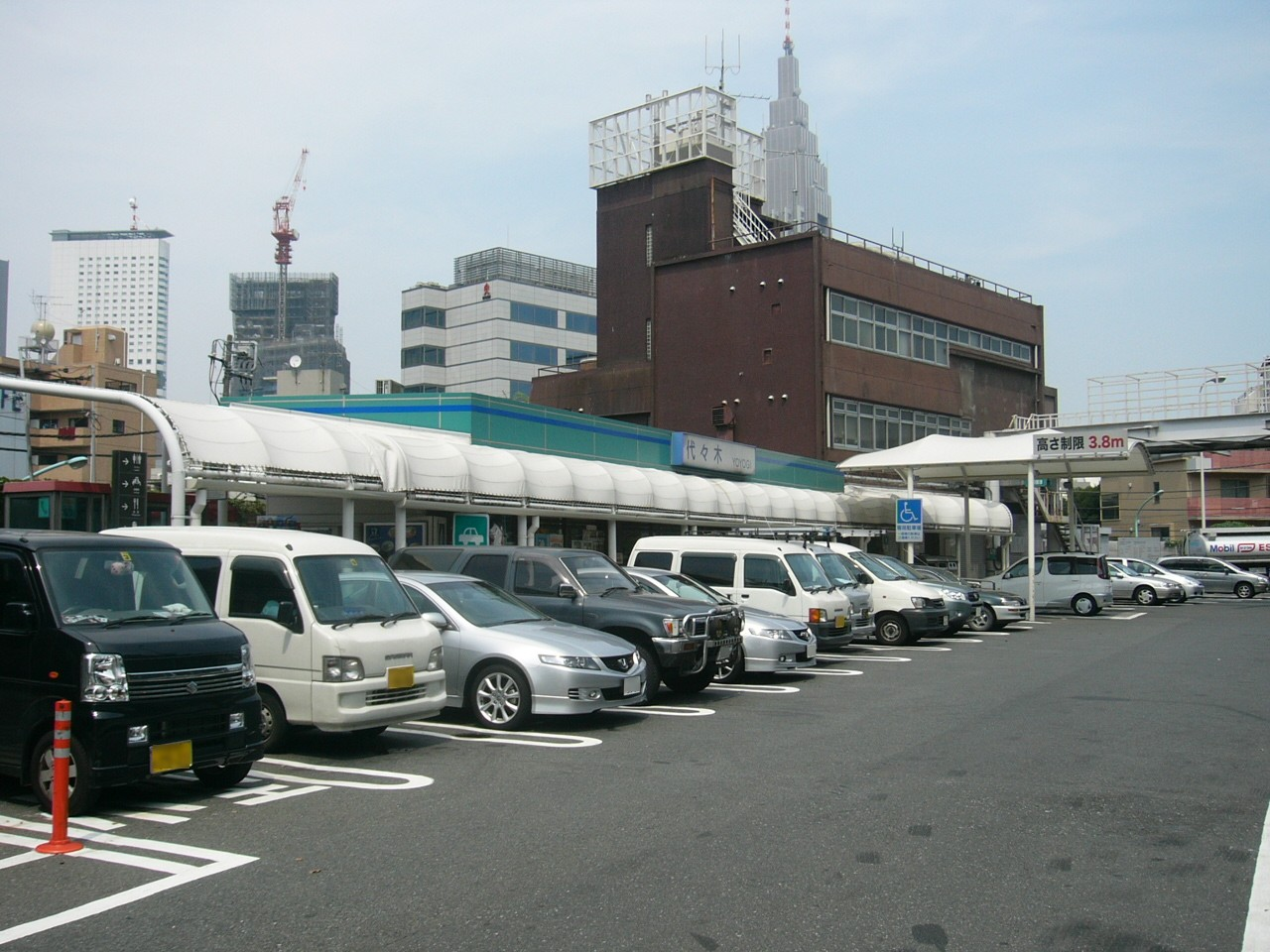 Yoyogi Parking Area